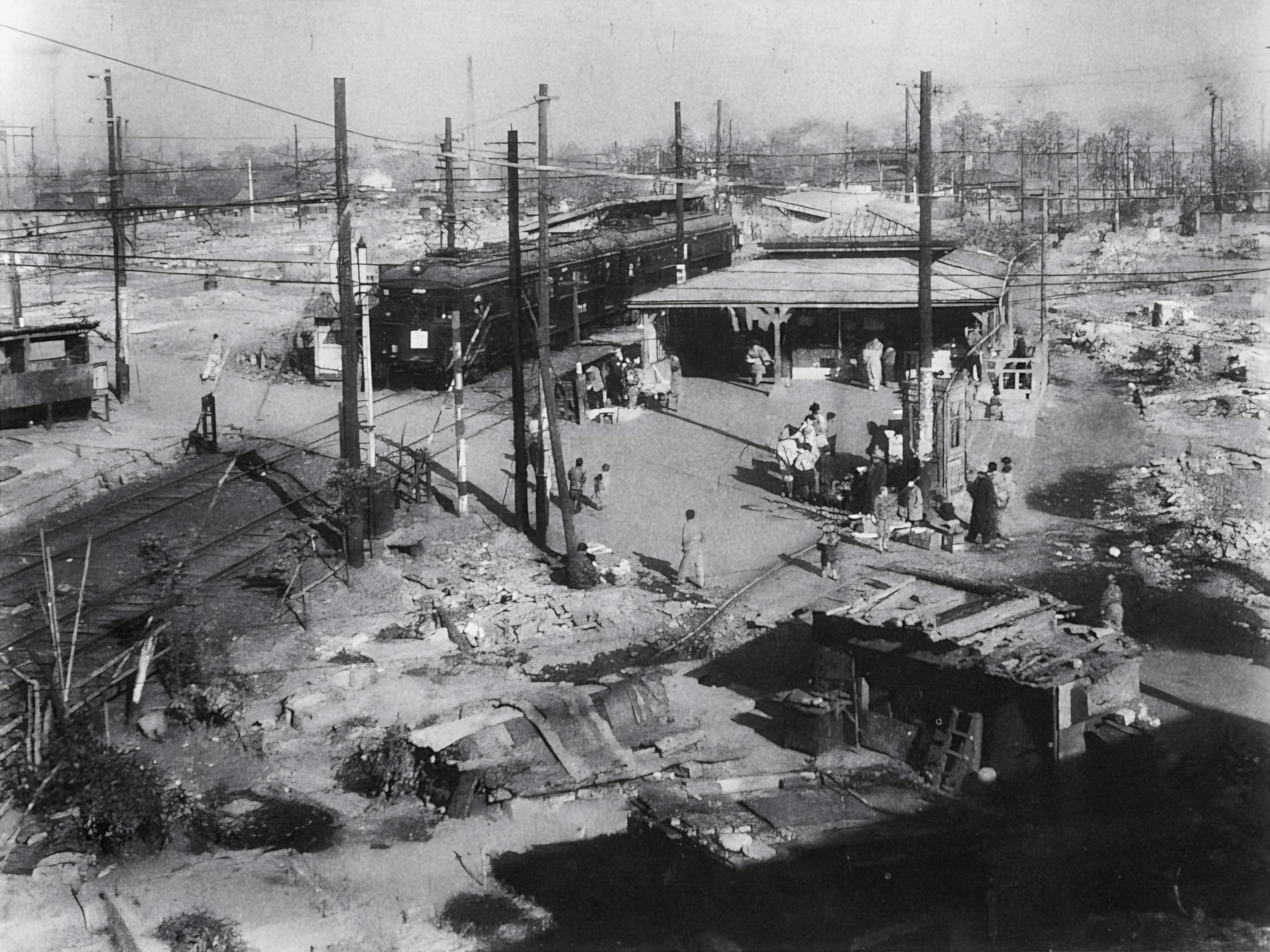 Tokyu Oimachi Line Togoshi-Koen Station in 1945